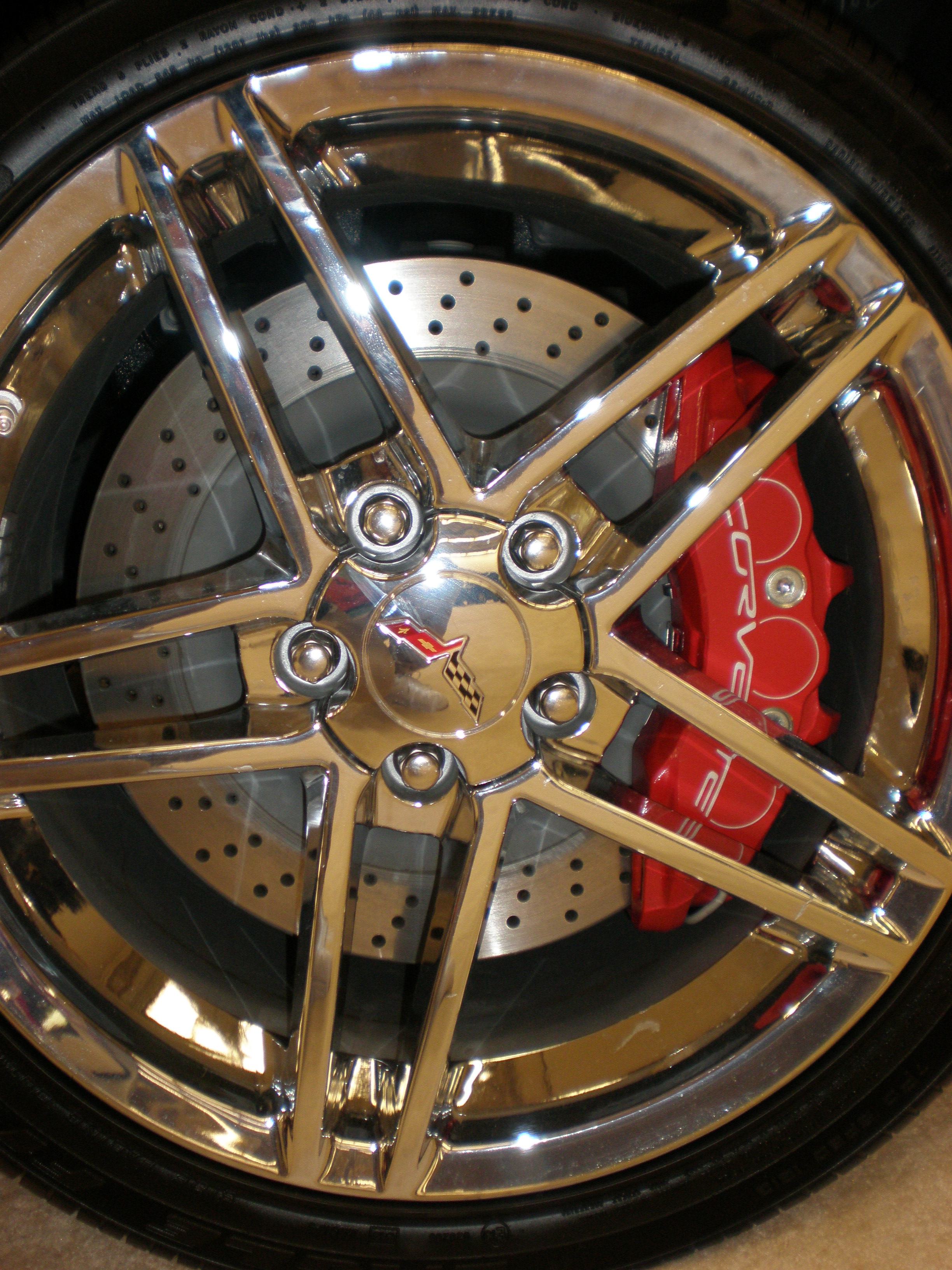 The wheel of a 2009 Chevrolet Corvette Z06 convertible at the 2008 San Francisco International Auto Show.